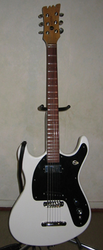 E-guitar Mosrite Ventures II Johnny Ramone signature model, built in Japan.